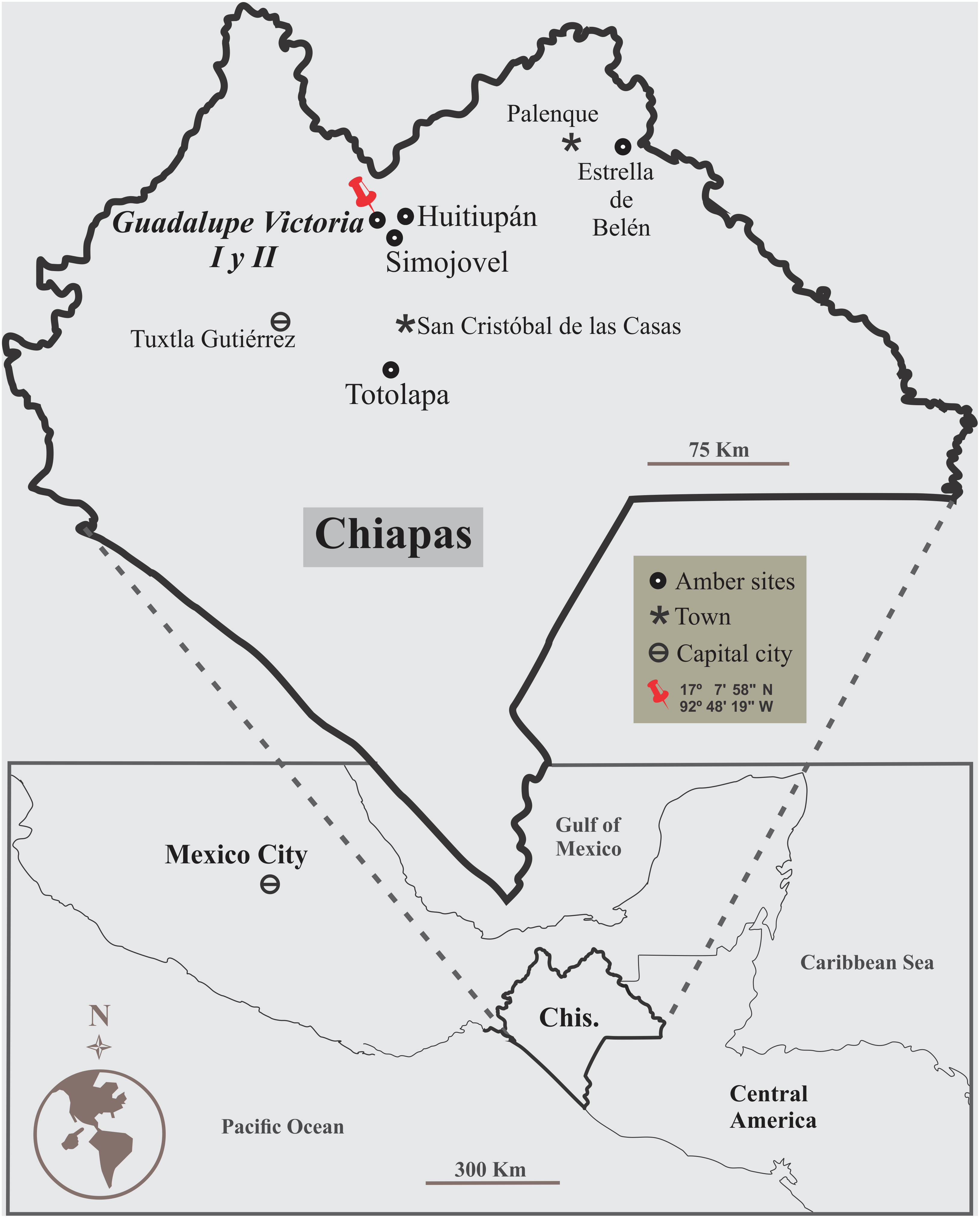 Figure 1. Location of the amber sites: Guadalupe Victoria I and II, Municipality of Simojovel de Allende, Chiapas, southern Mexico.